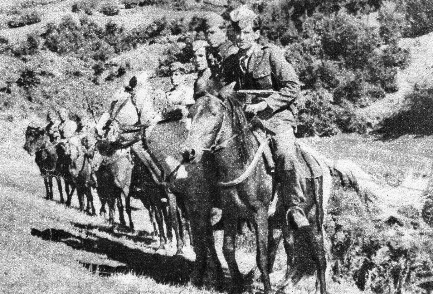 Fighters of Democratic Army of Greece This media file is produced by Wikipedian in Residence in Category:Wikipedian in Residence at DARM in 2016.